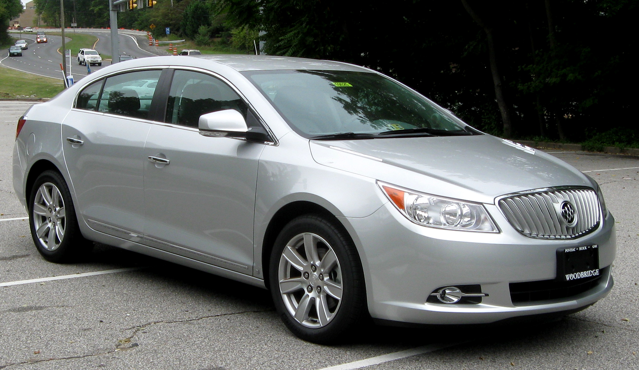 2010 Buick LaCrosse CXL photographed in Woodbridge, Virginia, USA.